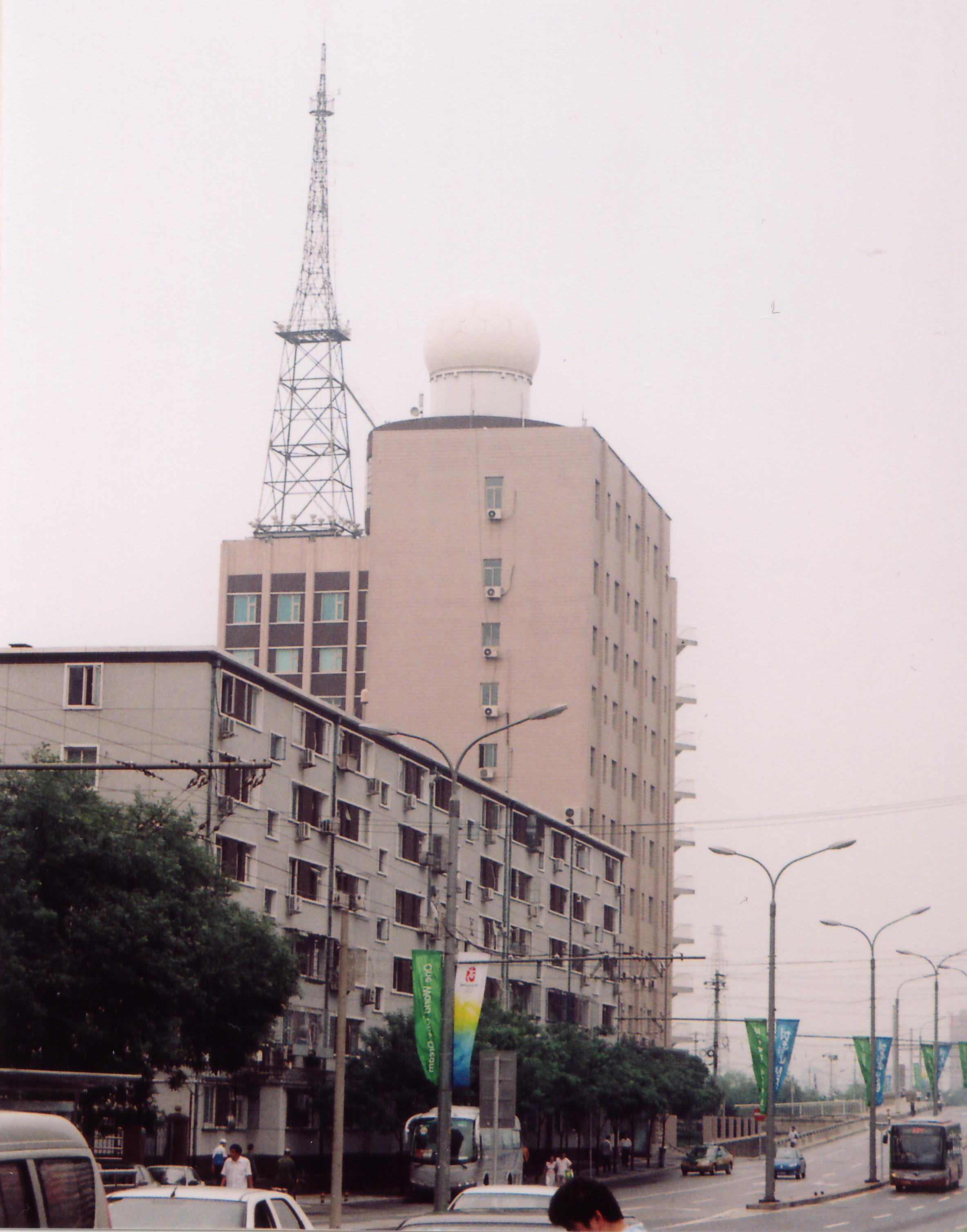 Building of the Beijing Meteorological Bureau, the Beijing region component of the Chineese Meteorological Administration. The radome on the top was used by a now decommisonned 5 cm wavelength weather radar.